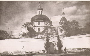 Convent of St. Mary Magdalene in Vilnius